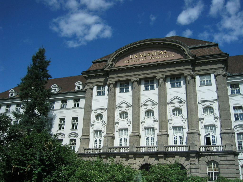 University of Innsbruck (Leopold-Franzens-Universität), Innsbruck, Austria.